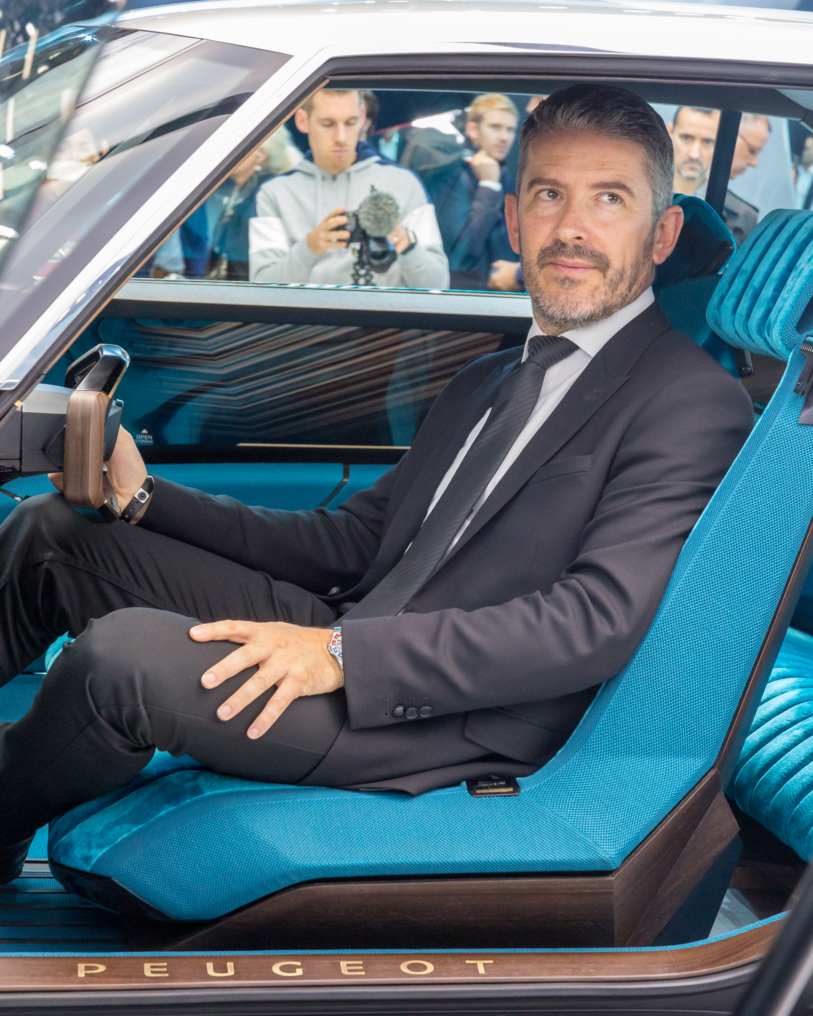 Peugeot, Mondial Paris Motor Show 2018